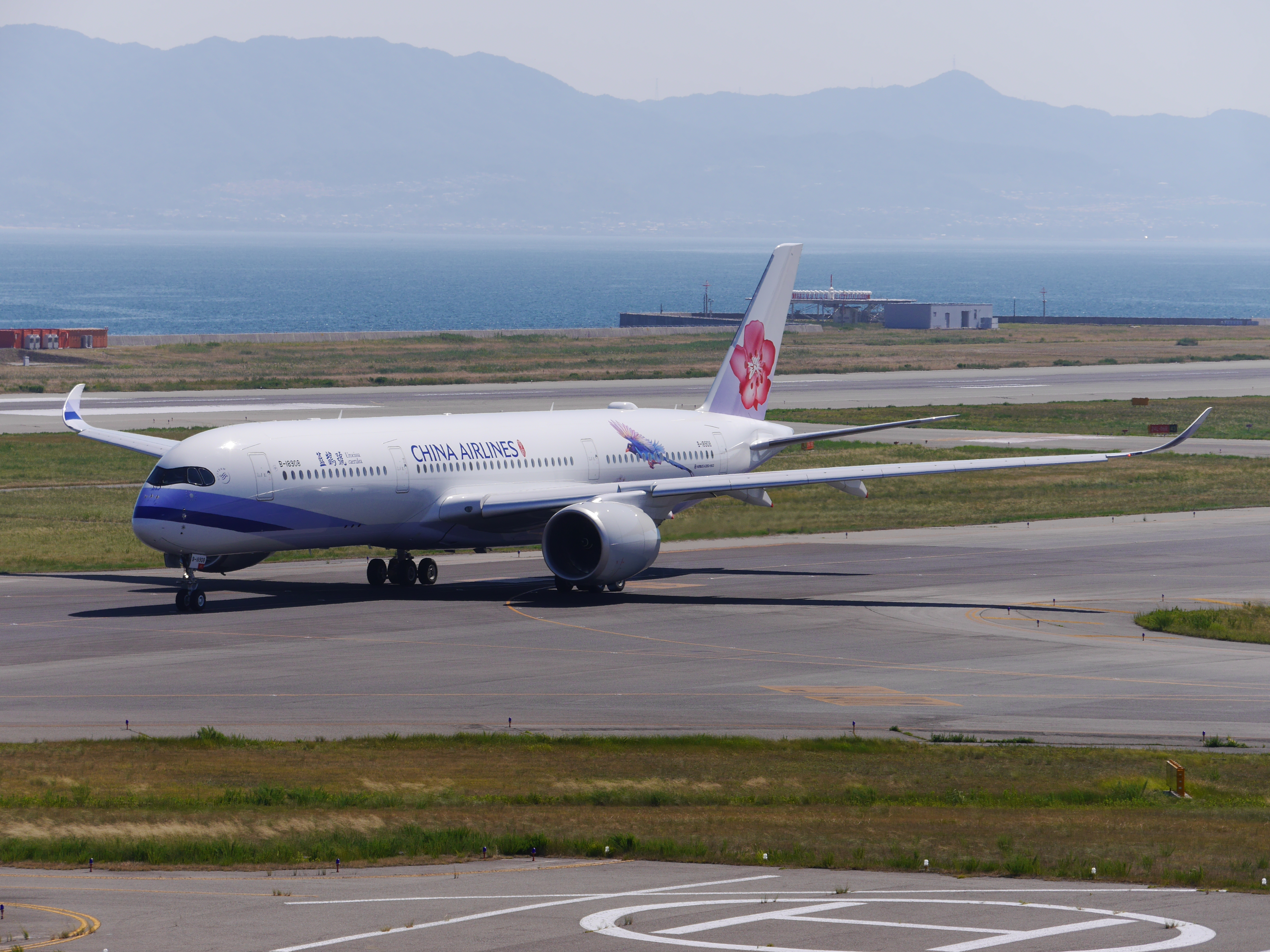 China Airlines Airbus A350-941 B-189808 at Kansai International Airport